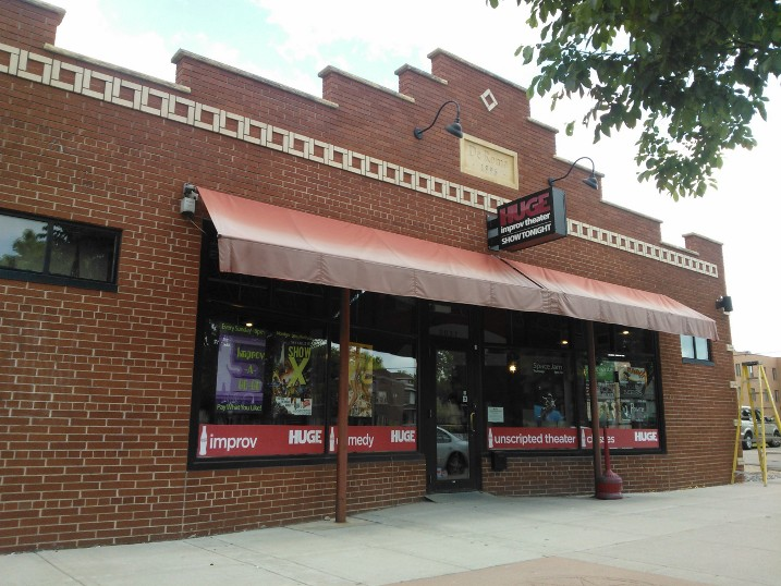 The facade of HUGE Improv Theater in Minneapolis, Minnesota, taken from Lyndale Ave.